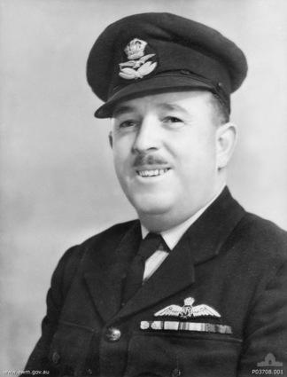 Studio portrait of Squadron Leader Andrew King Cowper MC & Two Bars, an officer in the Royal Australian Air Force. Cowper flew with the British Royal Flying Corps in the First World War, becoming a flying ace with 19 aerial victories to his credit.